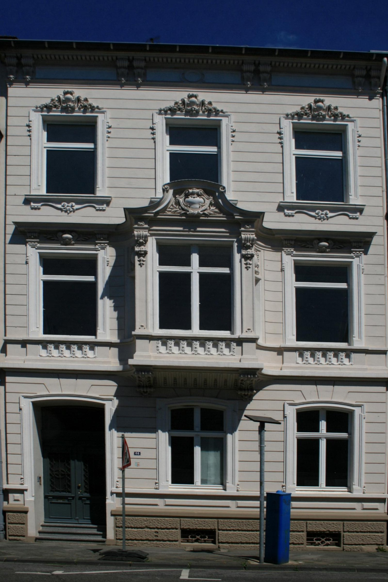 Cultural heritage monument No. H 009 in Mönchengladbach